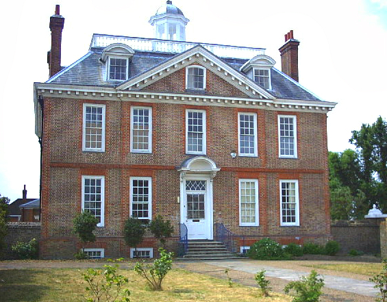 Eagle House, London Road, Mitcham. Built in 1705, in the Dutch style, probably for Fernando Mendez, Royal physician, on land formerly owned by Sir Walter Raleigh.